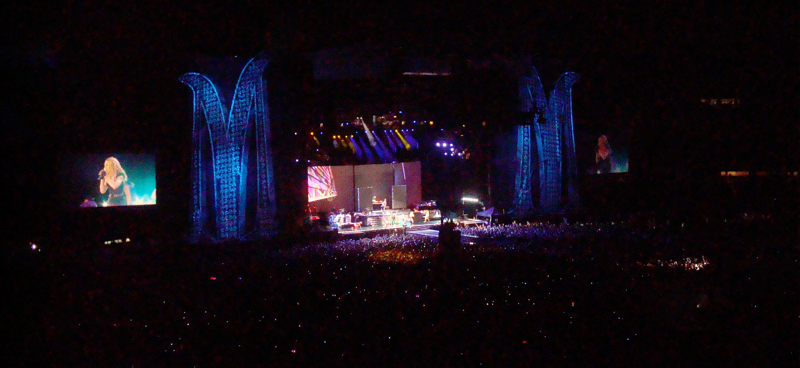 second show of Madonna in Cícero Pompeu de Toledo stadium, known as Morumbi, for the Sticky & Sweet Tour.